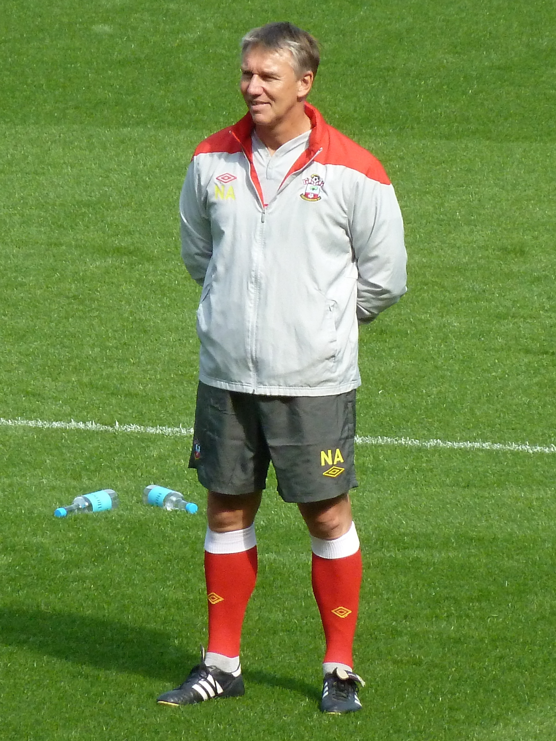 Southampton FC manager Nigel Adkins leading training in September 2011